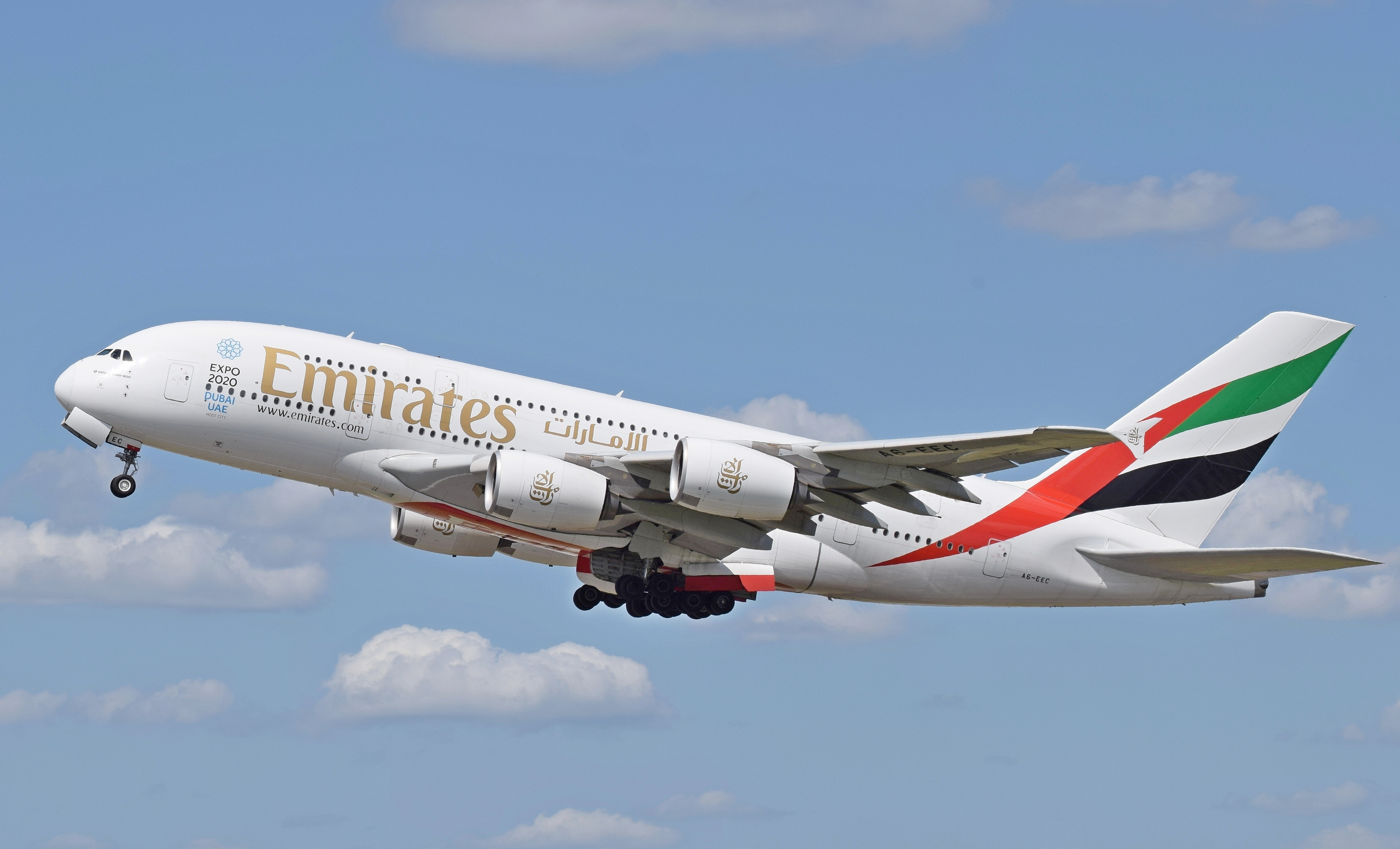 Emirates Airbus A380-800 (A6-EEC) departs London Heathrow Airport.